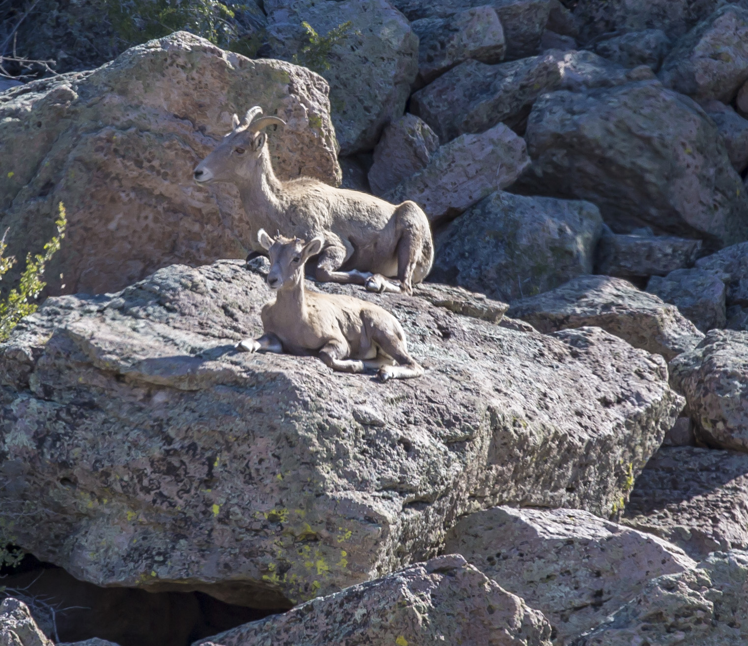 The Browns Canyon National Monument in Colorado will protect a stunning section of Colorado’s upper Arkansas River Valley. Located in Chaffee County near the town of Salida, Colorado, the 21,586-acre monument features rugged granite cliffs, colorful rock outcroppings, and mountain vistas that are home to a diversity of plants and wildlife, including bighorn sheep and golden eagles. Members of Congress, local elected officials, conservation advocates, and community members have worked for more than a decade to protect the area, which hosts world-class recreational opportunities that attract visitors from around the globe for hiking, whitewater rafting, hunting and fishing. In addition to supporting this vibrant outdoor recreation economy, the designation will protect the critical watershed and honor existing water rights and uses, such as grazing and hunting. The monument will be cooperatively managed by the Department of the Interior’s Bureau of Land Management and USDA’s National Forest Service. Learn more: Photos by Bob Wick, BLM